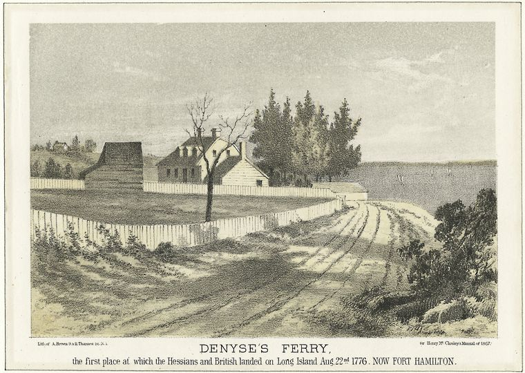 Denyse's Ferry, the first place at which the Hessians and British landed on Long Island Aug. 22nd 1776 NOW FORT HAMILTON Site of British invasion force landing for the Battle of Long Island